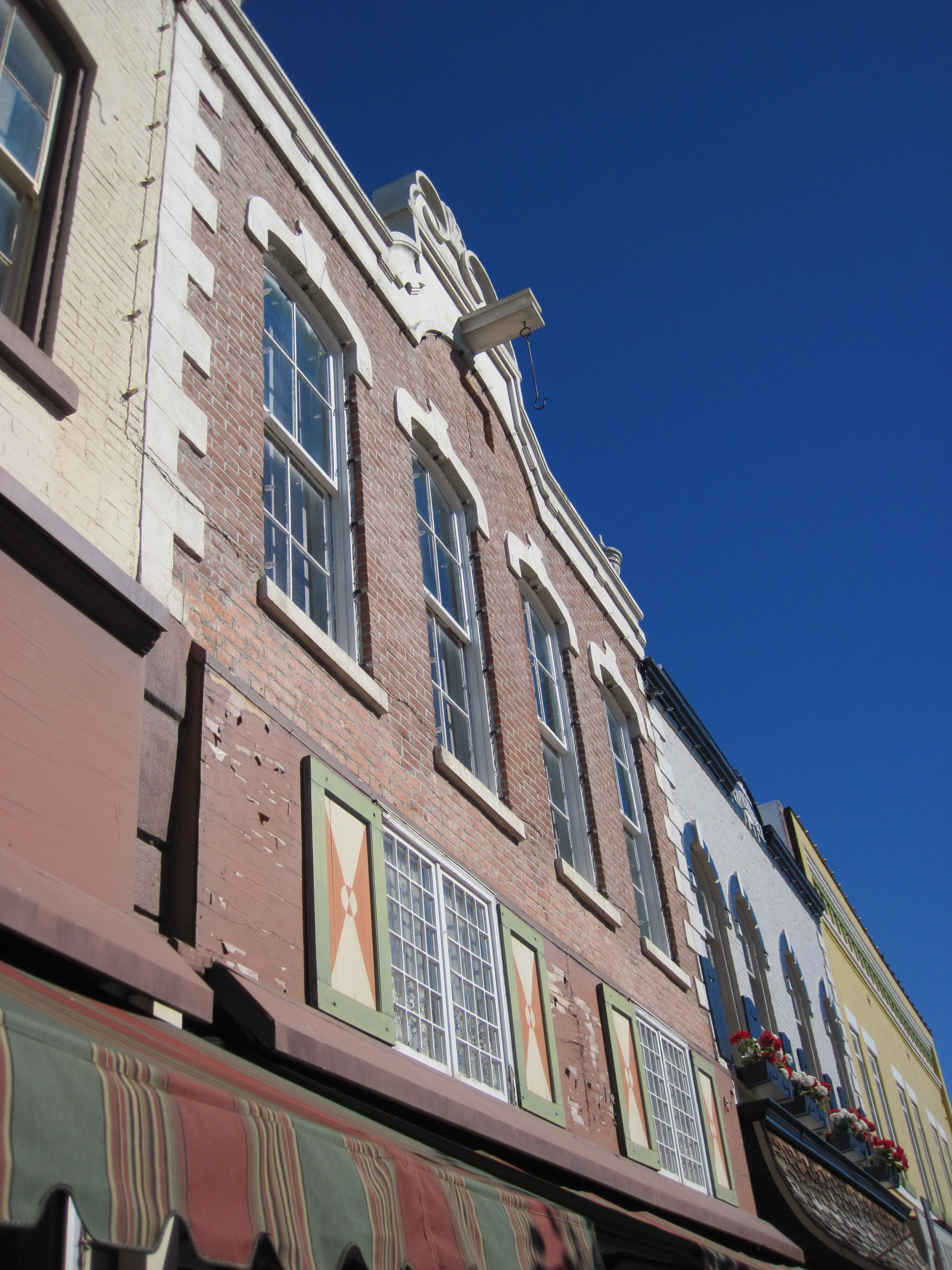 Pella, example of Dutch loft hook